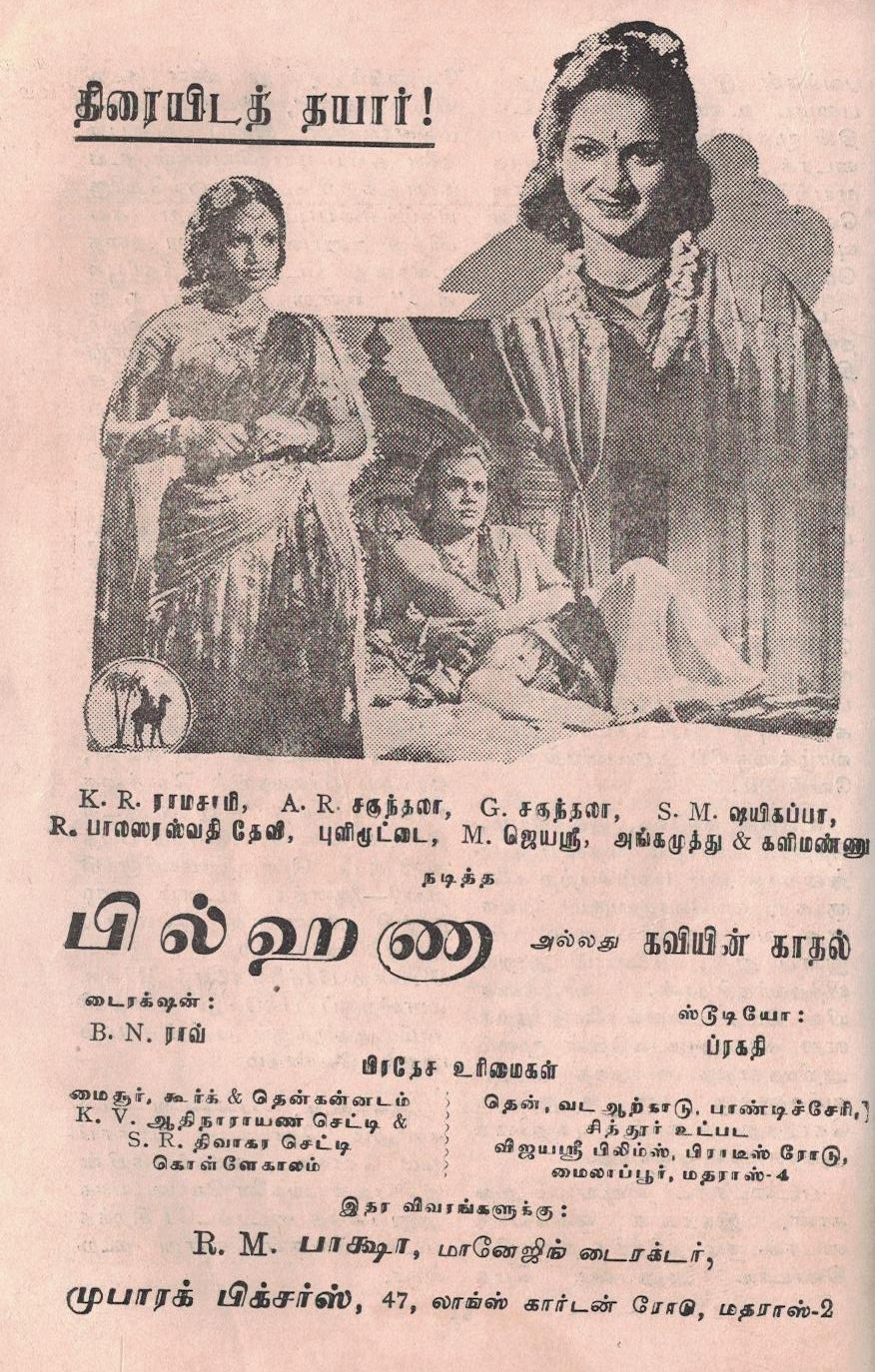 Poster for the 1948 South Indian Tamil film Bilhana